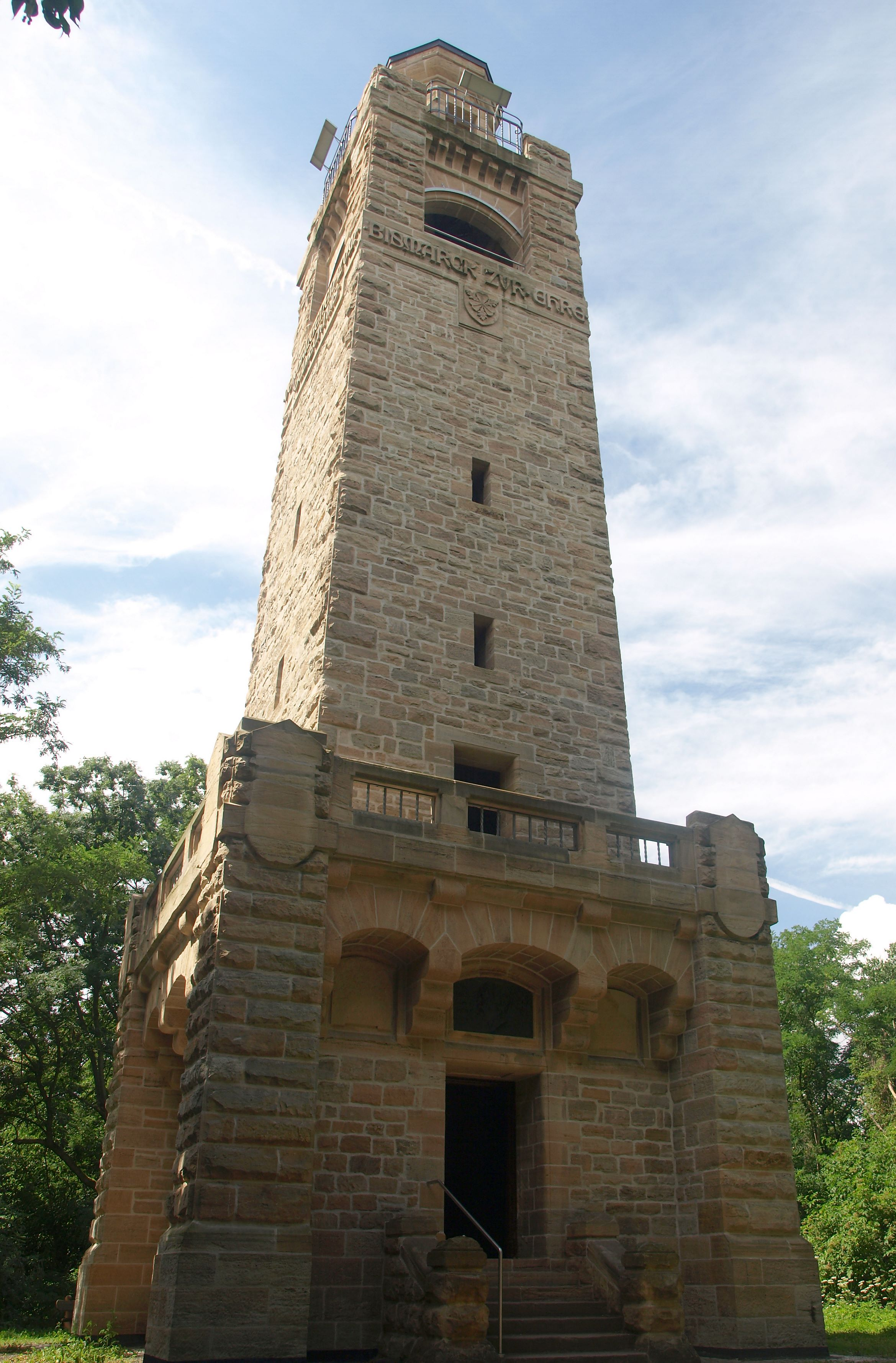 Bismarck tower near Eschwege